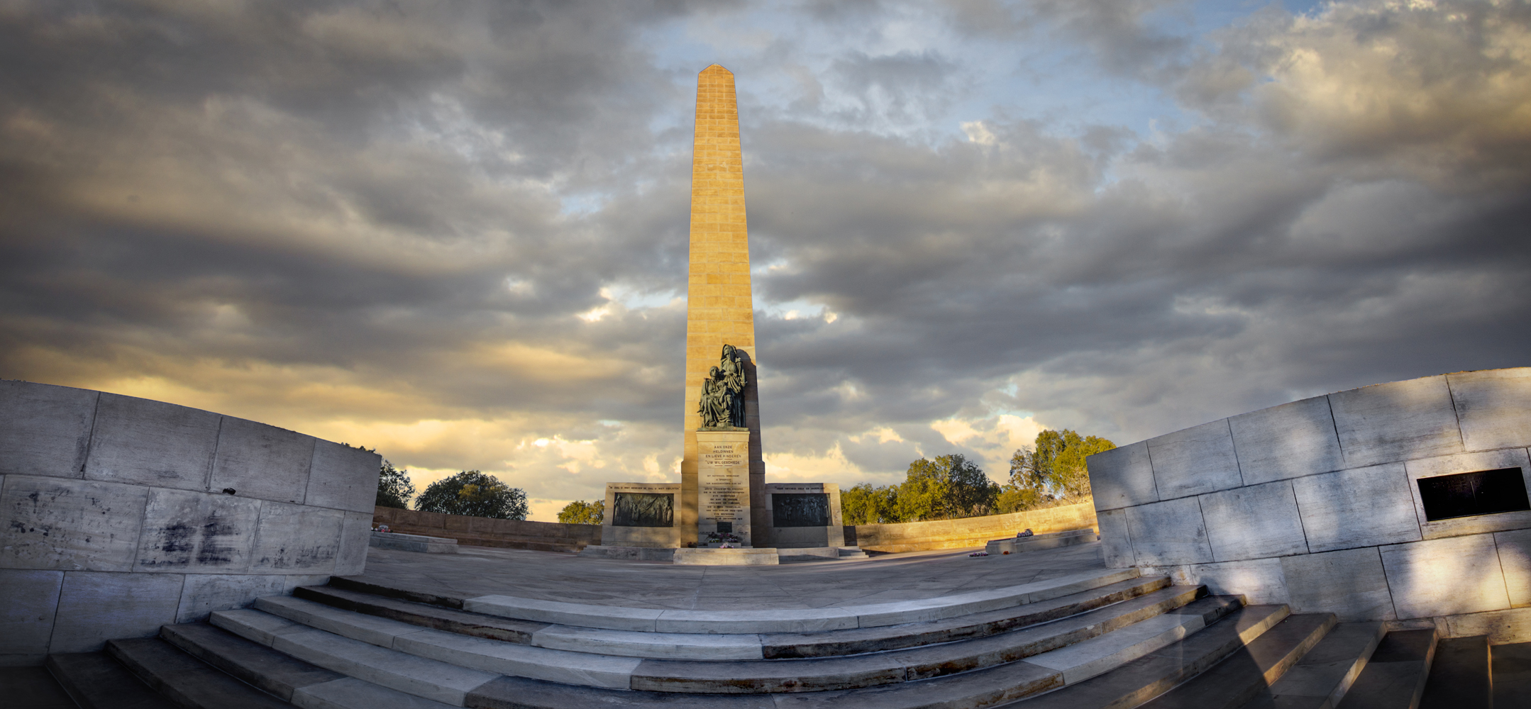 "This obelisk of 36,5 metres high was built of Kroonstad sandstone in memory of the 26 370 Boer women and children who died during the Anglo Boer War(1899 -1902). It was unveiled on 16 December 1913." This media shows a South African Protected Site with SAHRA file reference 9/2/302/0045.